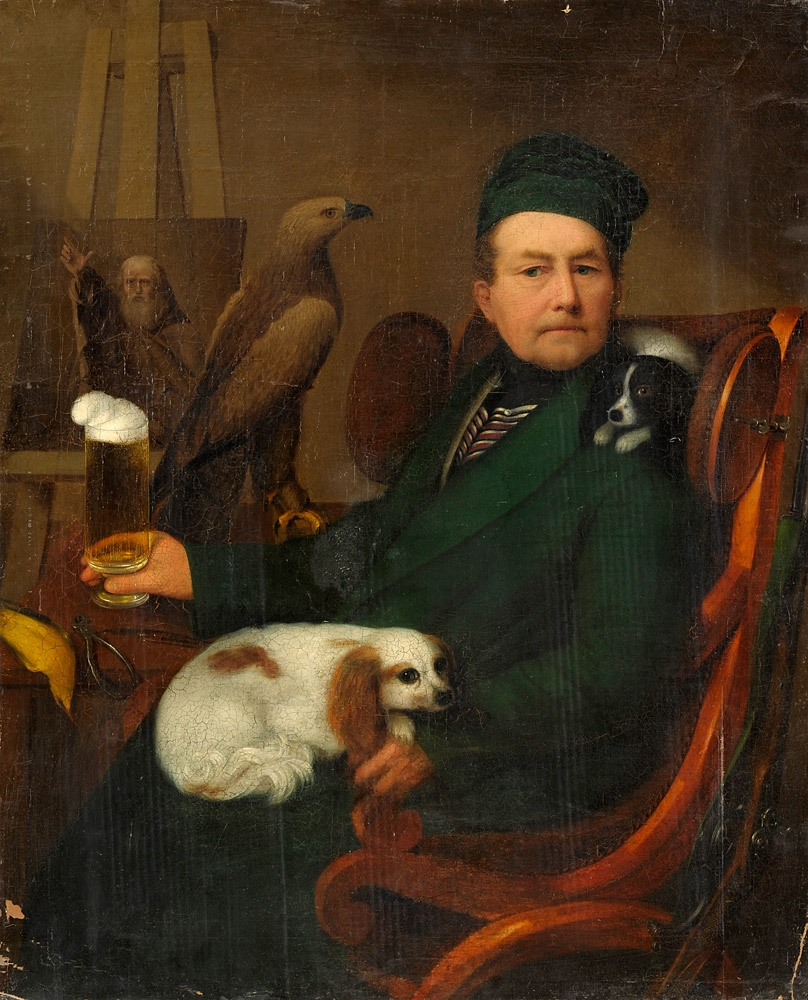 Portrait of a Man with dog